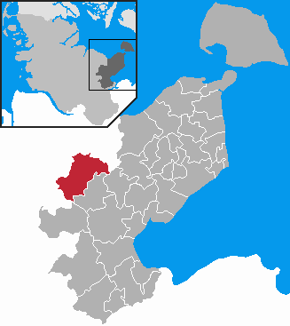 This map shows the area of the Gemeinde (municipality) Malente in the Kreis (district) Ostholstein, Schleswig-Holstein, Germany.